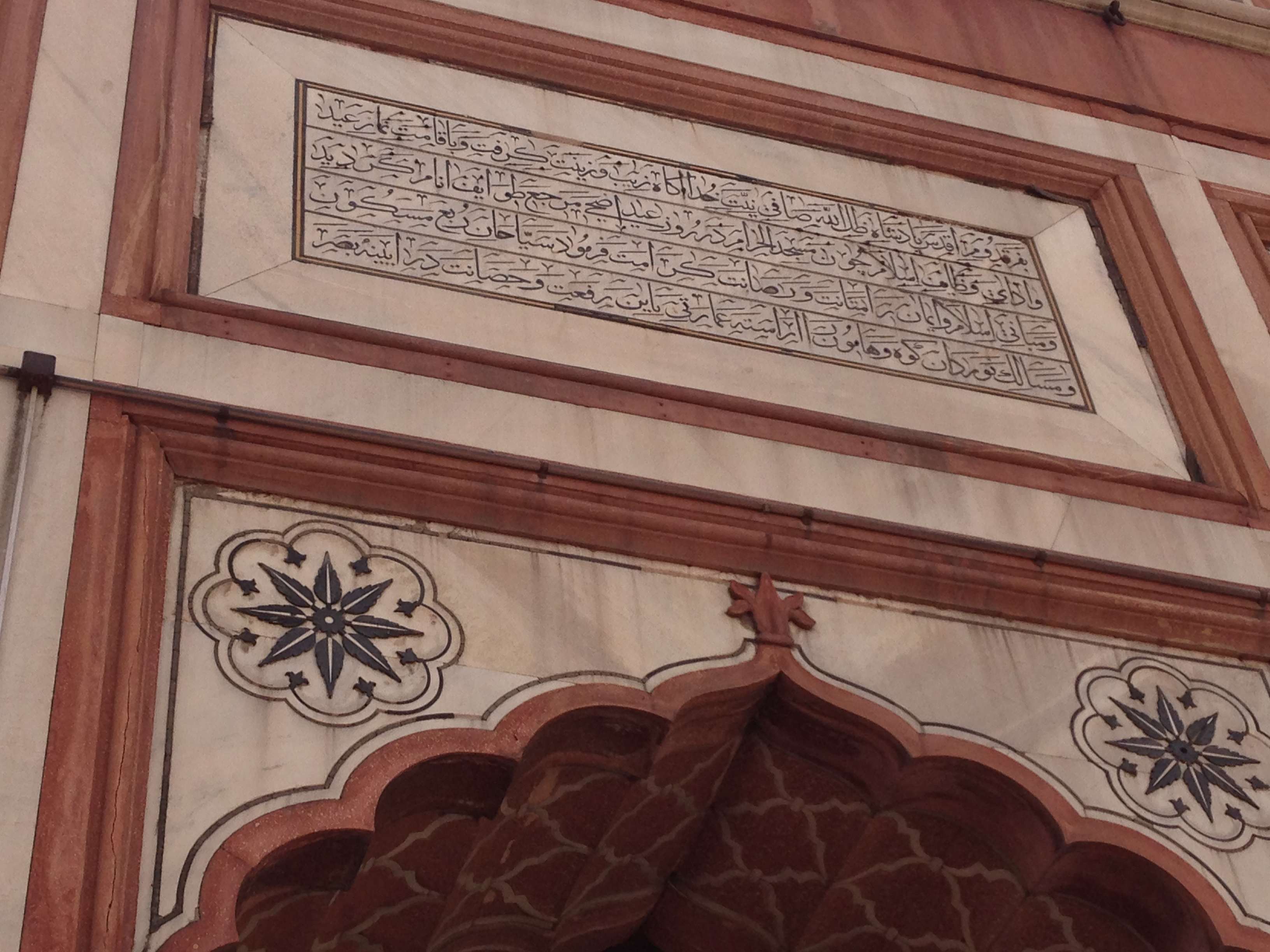 Persian inscriptions on Indian monuments